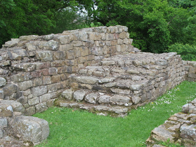 Remains of a flight of stairs, Milecastle 48 In the northeast corner of the milecastle are the remains of a flight of stairs leading up onto the wall. The stair base with its three surviving steps is unique. It can be calculated that the number of steps would have risen to about 12 feet, presumably the height of the wall-walk at this point.